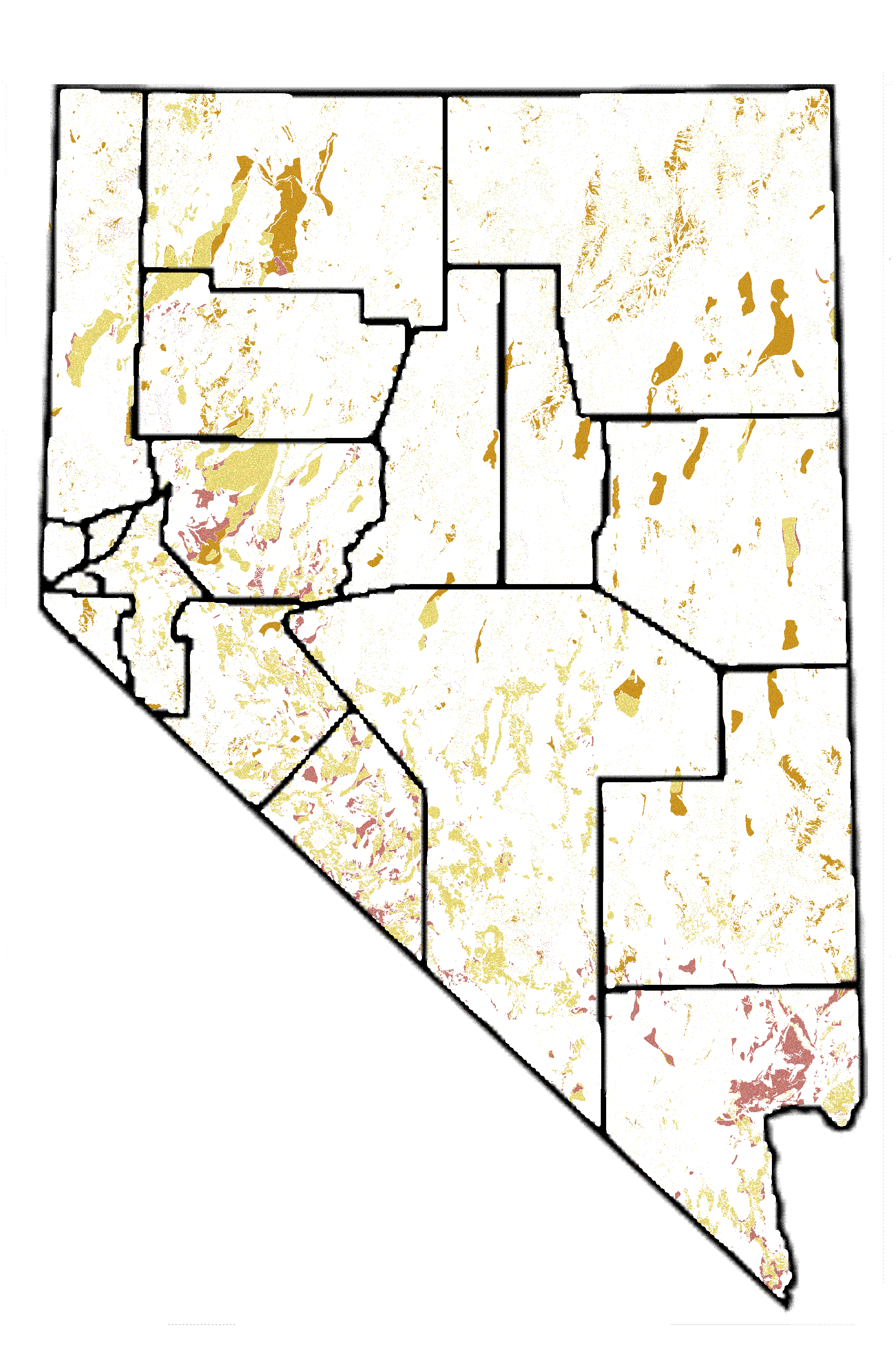 Playa areas in Nevada, from USGS PD map with GFDL Image:Nevada map showing counties.png